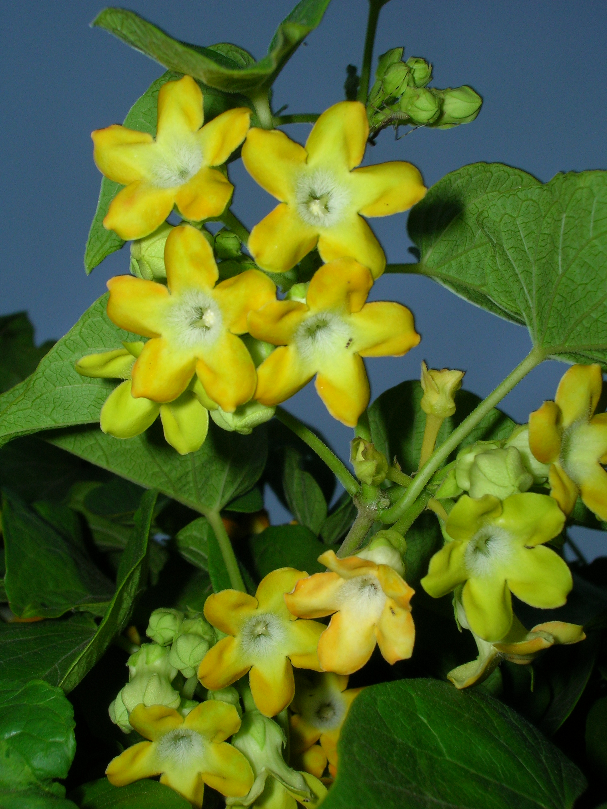 Telosma cordata (flowers). Location: Maui, HDOA Kahului